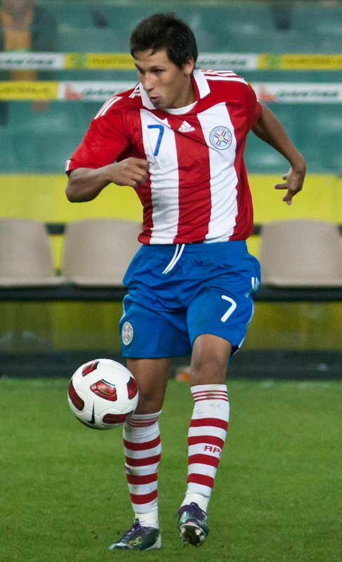 Hernan Perez playing for the Paraguay national football team in a friendly match against Australia at the Sydney Football Stadium.